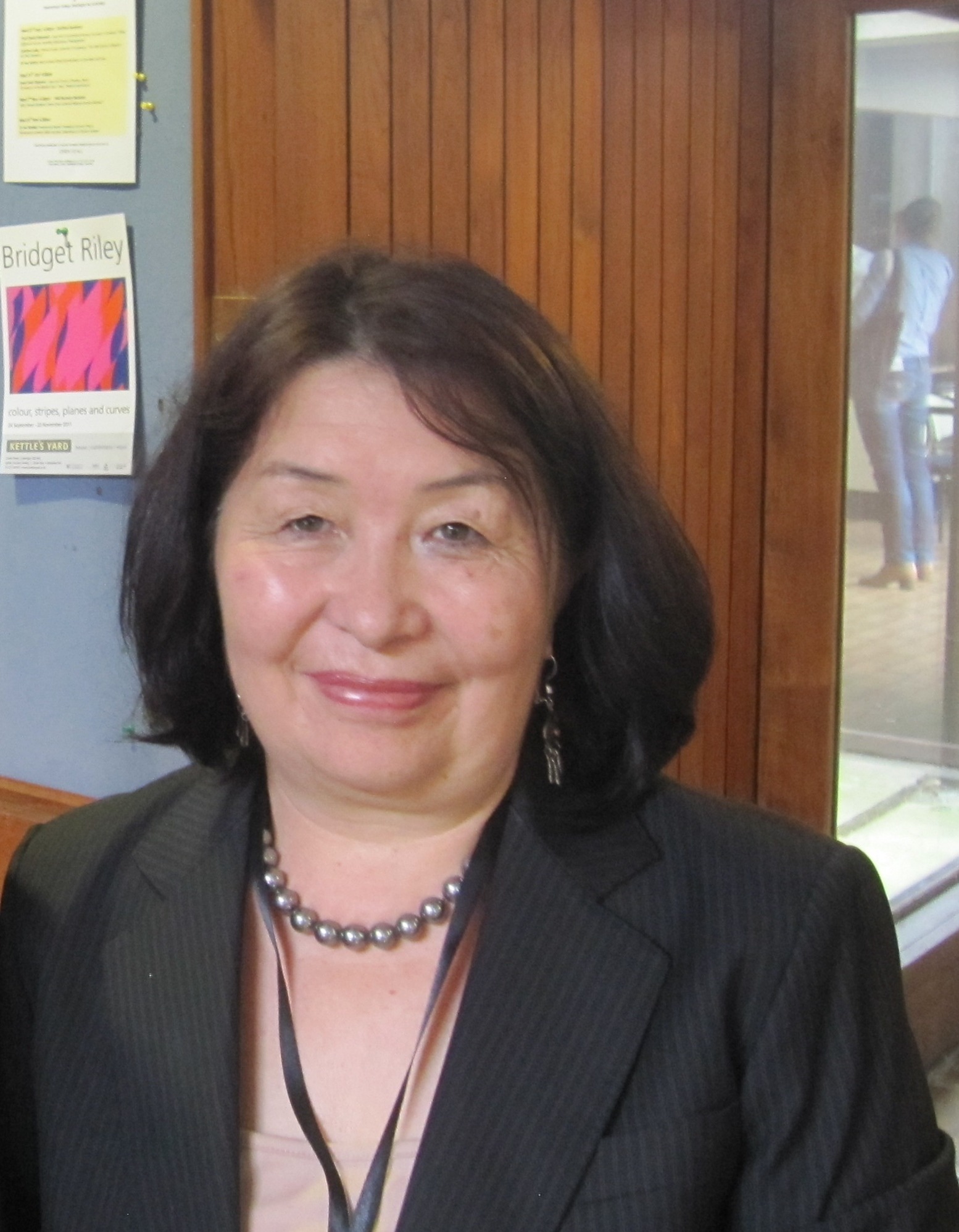 en – Dr. Gulzura Jumakunova, a Kyrgyz philologist, and Turkologist, Professor of the Ankara University, during a scientific conference at the Cambridge University, U.K. 20.9.2011. Photo by T. Chorotegin.